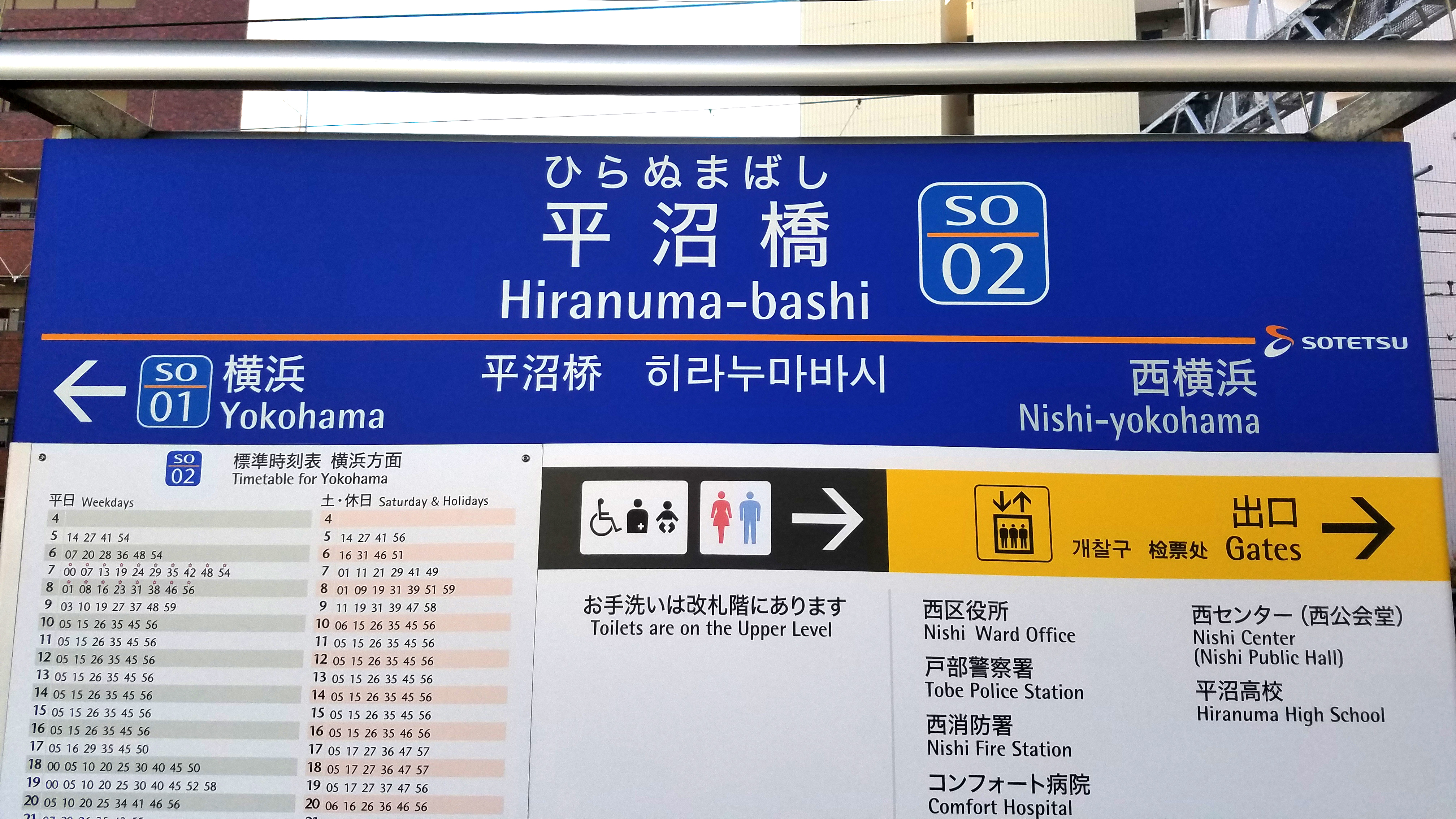 The station sign at Hiranumabashi Station on the Sagami Railway Main Line in Yokohama